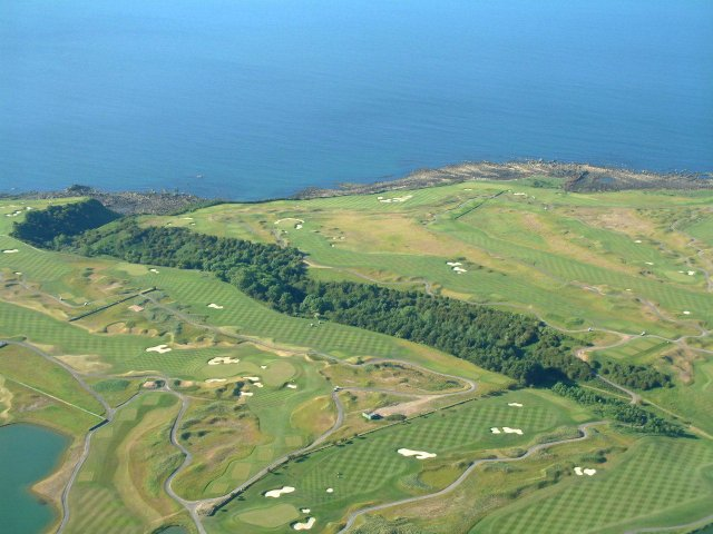 Kittock's Den The strip of woodland is Kittock's Den, with the fairways of the St Andrews Bay Devlin golf course (designed by designed by the late Gene Sarazen and Bruce Devlin) on either side of it.